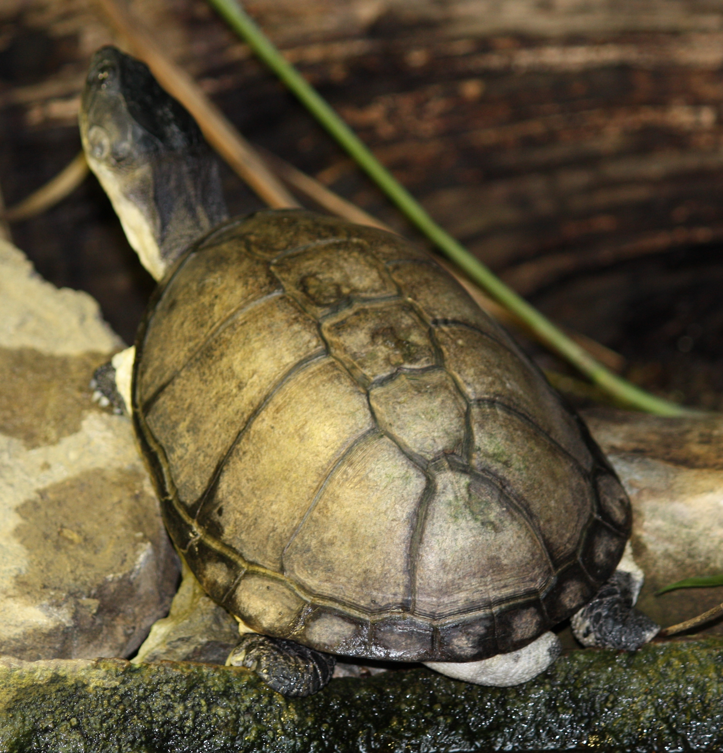 Helmeted Turtle Pelomedusa subrufa at Cincinnati Zoo